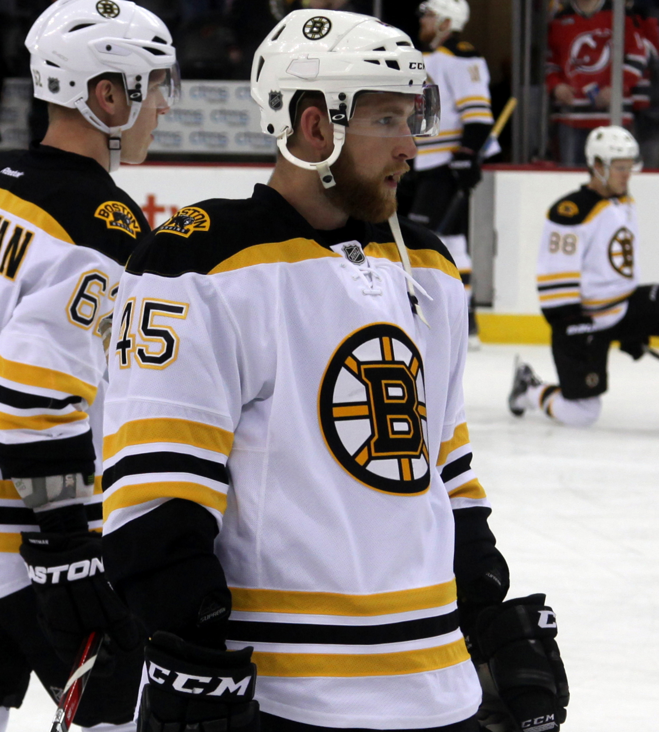 Morrow in March 2016